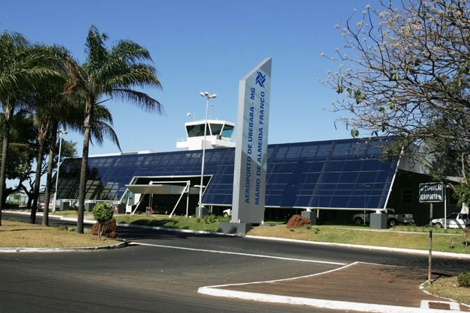 Uberaba Airport